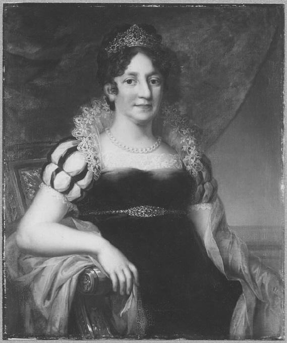 Queen Charlotte of Sweden and Norway (1759-1818)